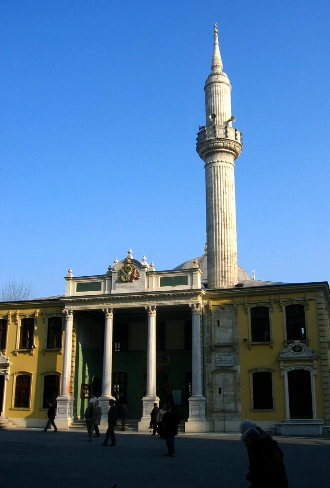 Mosque in Nişantaşı, Istanbul, Turkey.